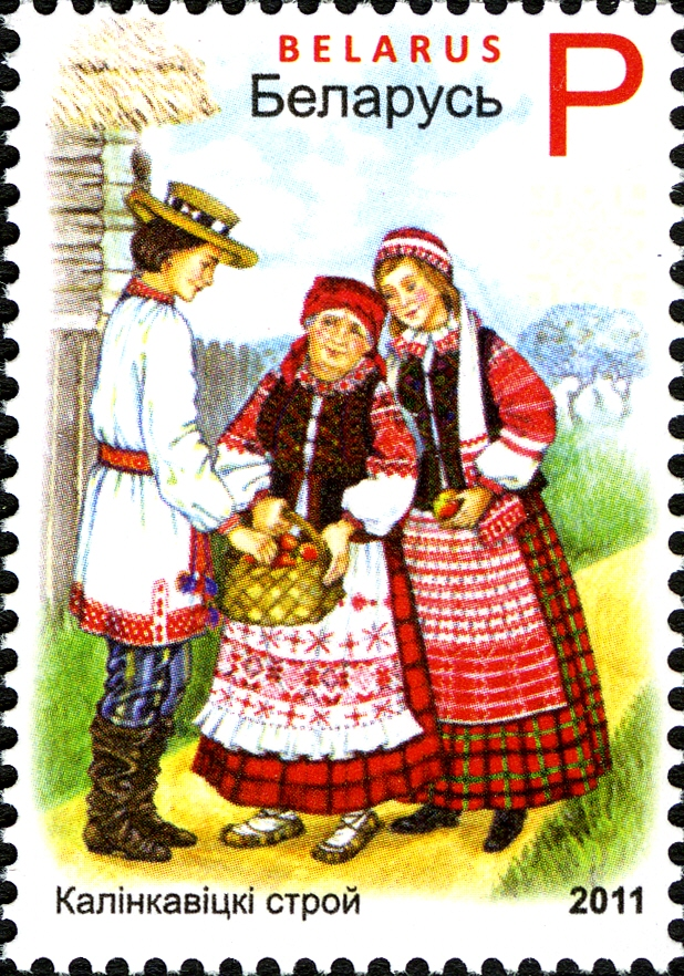 Costumes of Kalinkovichi